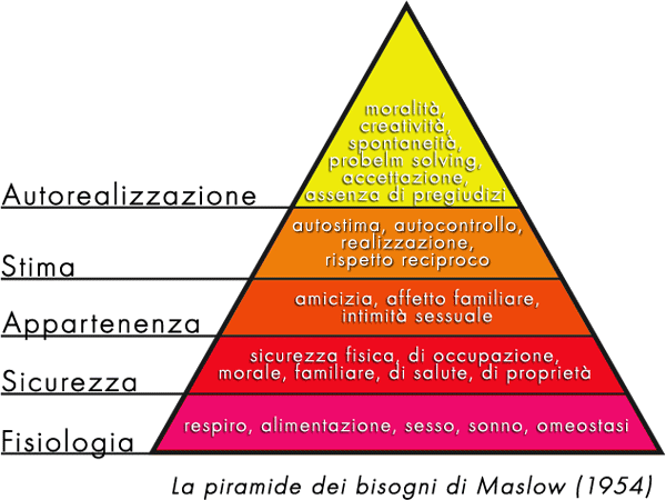 Abraham Maslow's hierarchy of needs